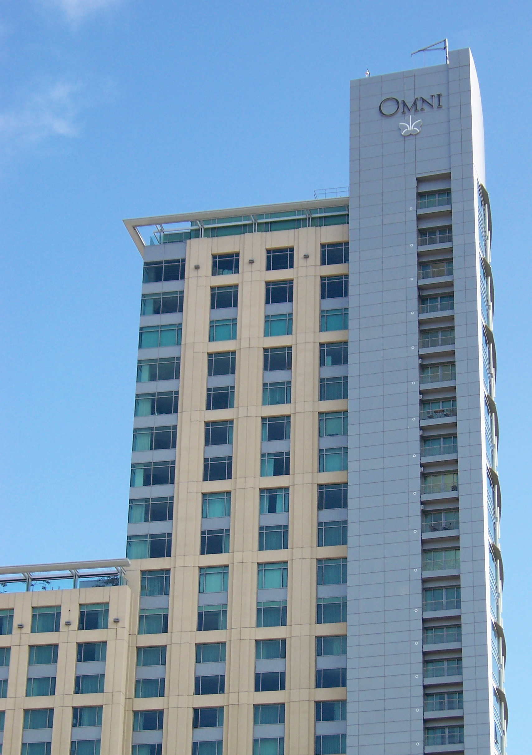 Omni Hotel skyscraper in San Diego, California. Construction was completed in 2004.